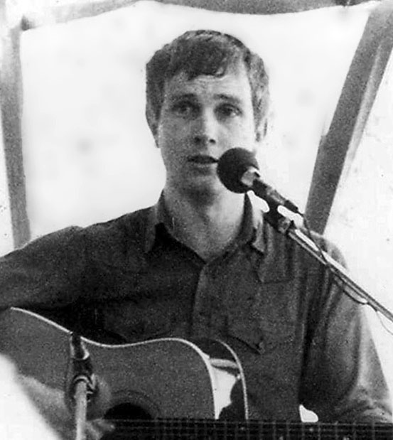 New Zealand musician Marcus Turner, photographed at a folk music festival in Amberley in 1983.